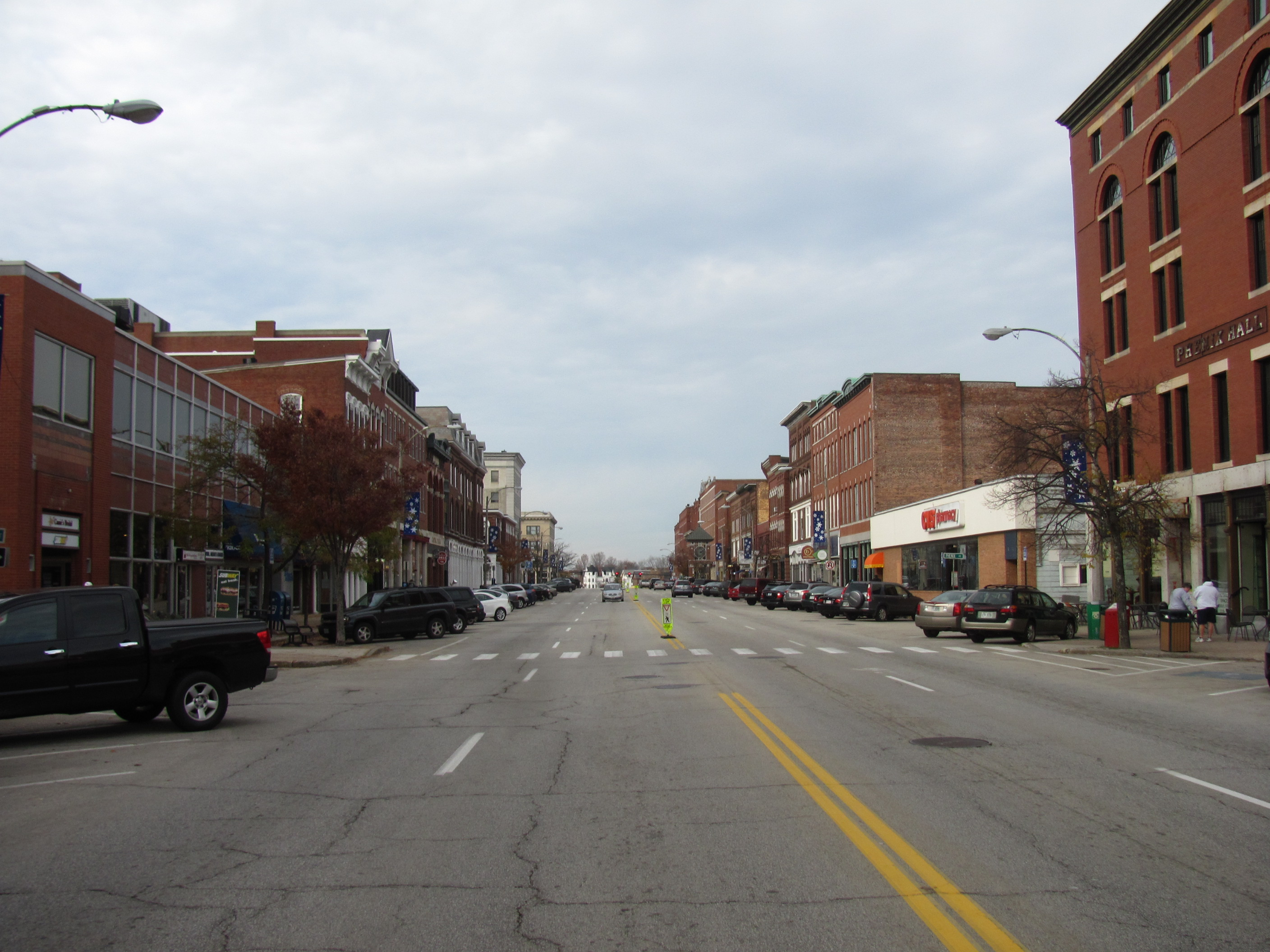 Main Street, Concord New Hampshire